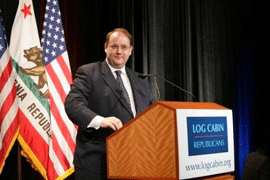 from here: "Marc Cherry at LCR event."